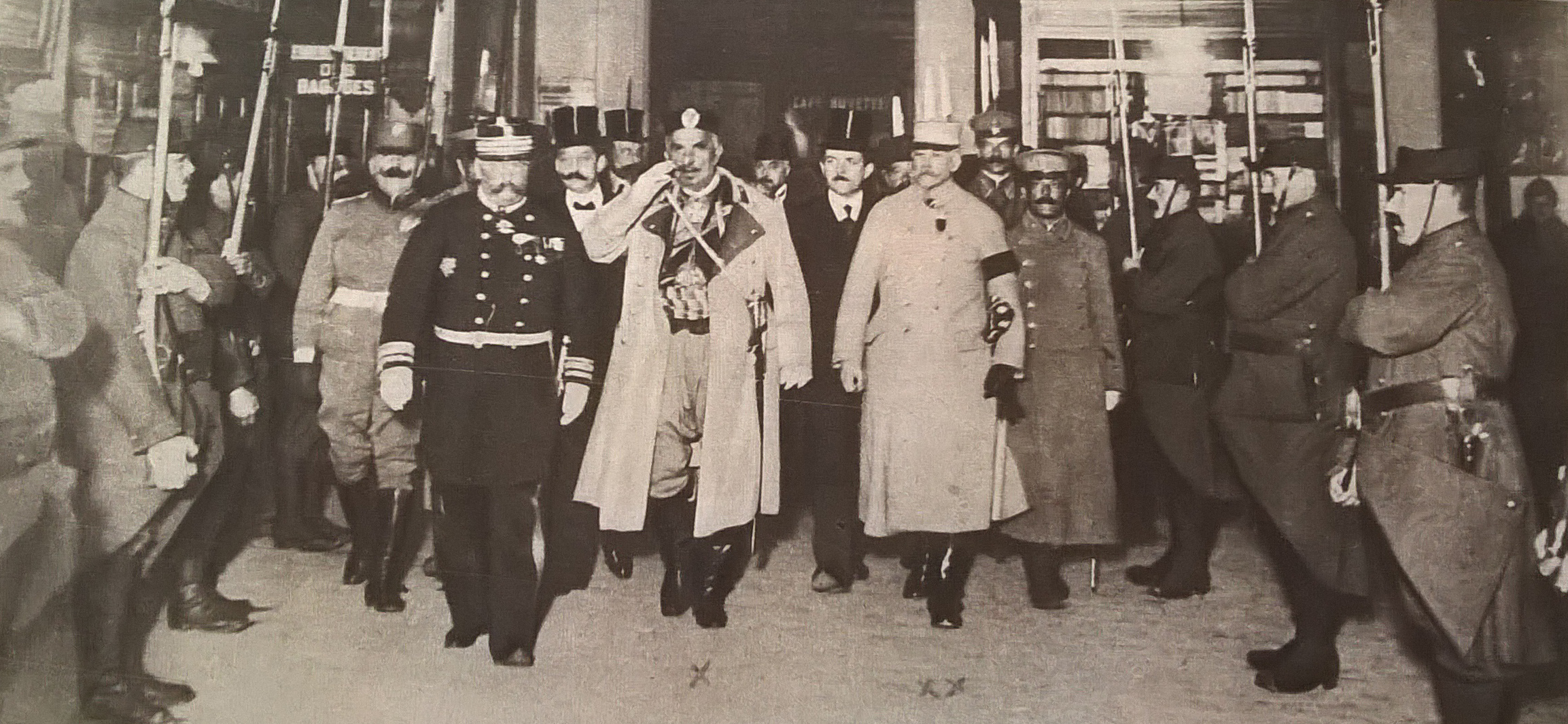 The King's Militia salutes King Nihcolas I in Lyons, France